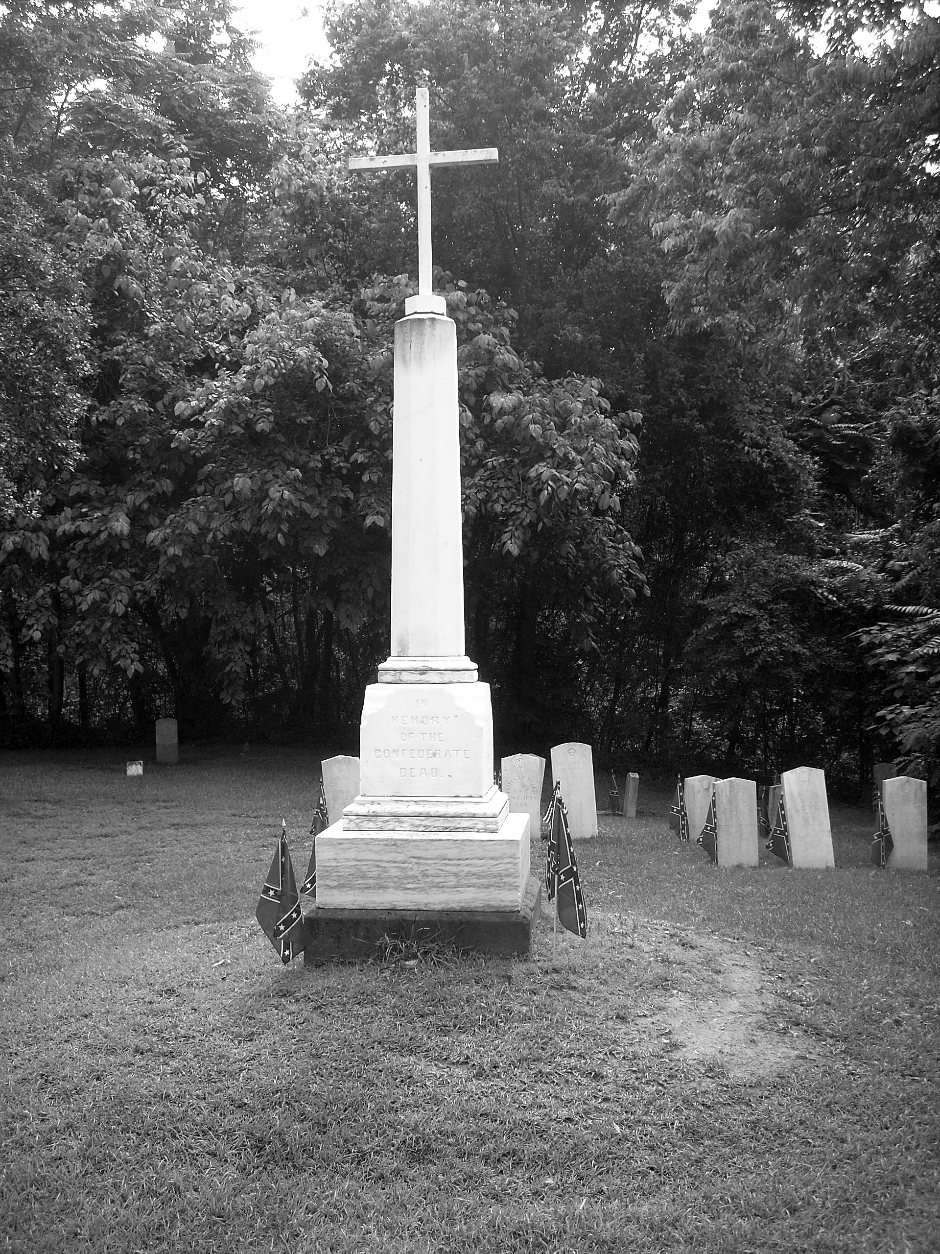 The first Confederate Monument in North Carolina stands in the military area within the grounds, erected in 1868. The money to build the monument was raised by local women that sold shares to make a quilt. The quilt was sold for $300, enough to create the monument. The quilt was eventually given to Confederate President Jefferson Davis.